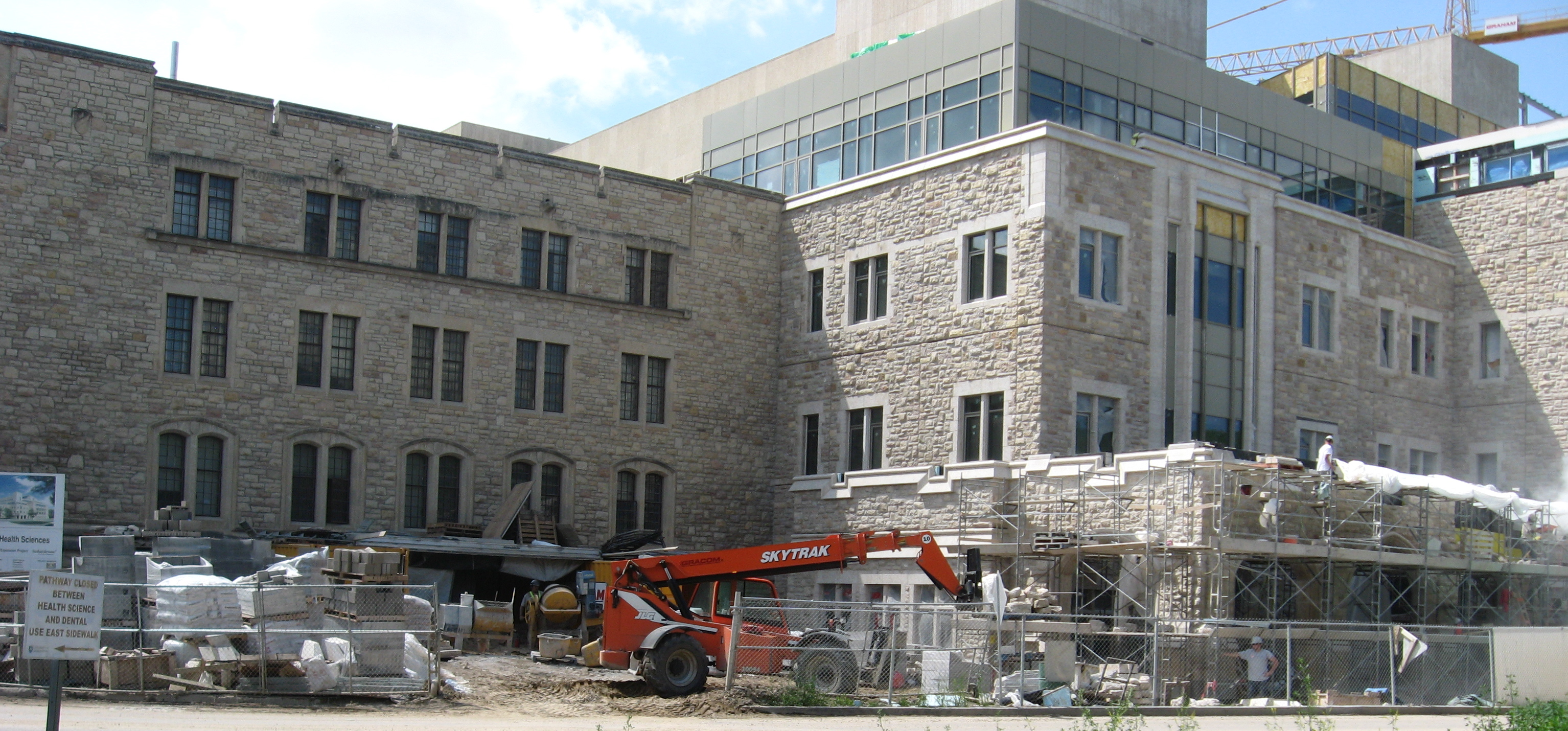 University of Saskatchewan Health Sciences Building Construction, summer 2010